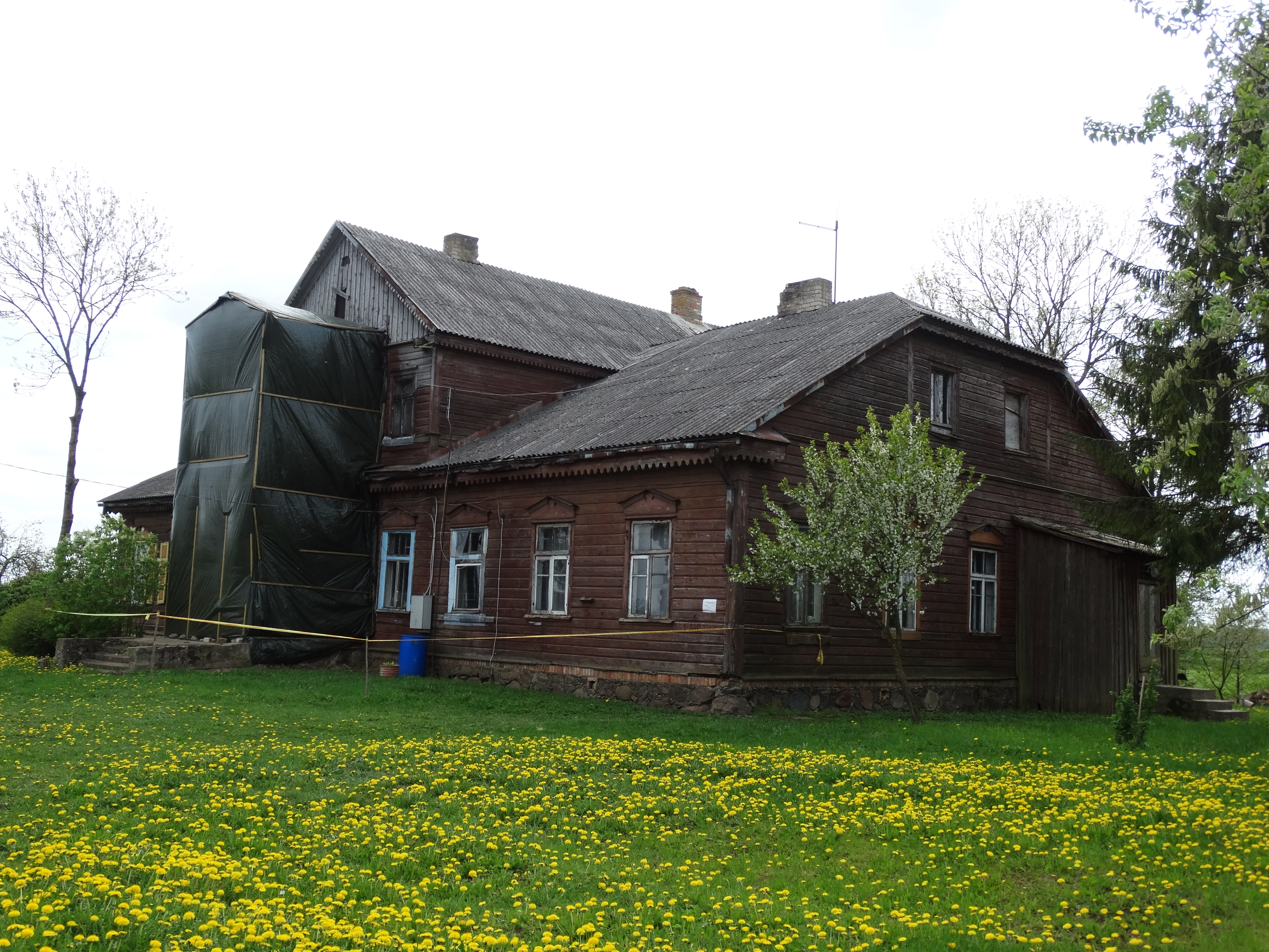 Vileikiai, former manor, Radviliškis district, Lithuania